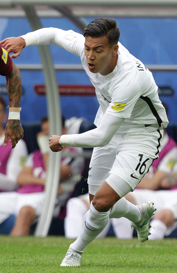 New Zealand VS. Portugal 0 - 4, 24 June 2017